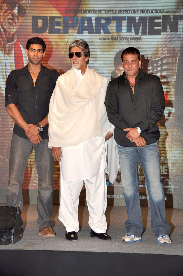 Rana Daggubati, Amitabh Bachchan, Sanjay Dutt at Press conference of 'Department'